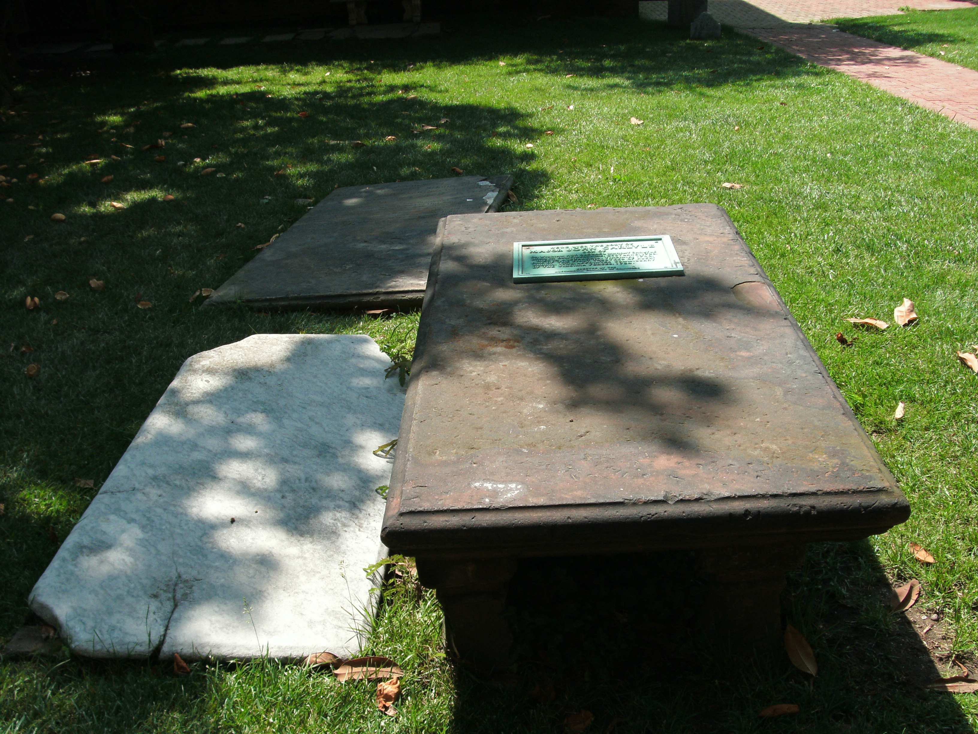 Image taken by me for Wikipedia